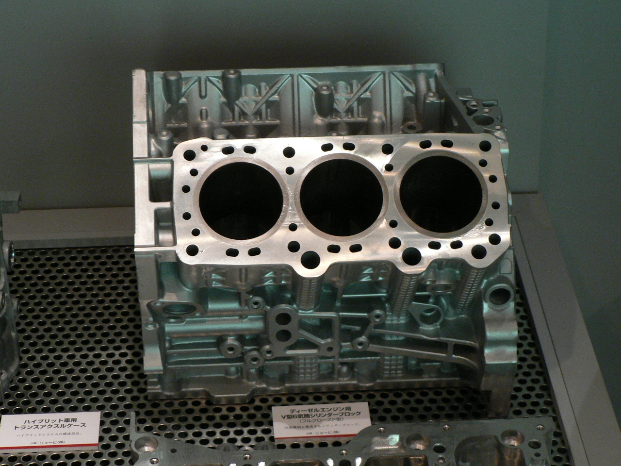 A full-closed cylinder block for V6 diesel engine by RYOBI LIMITED.